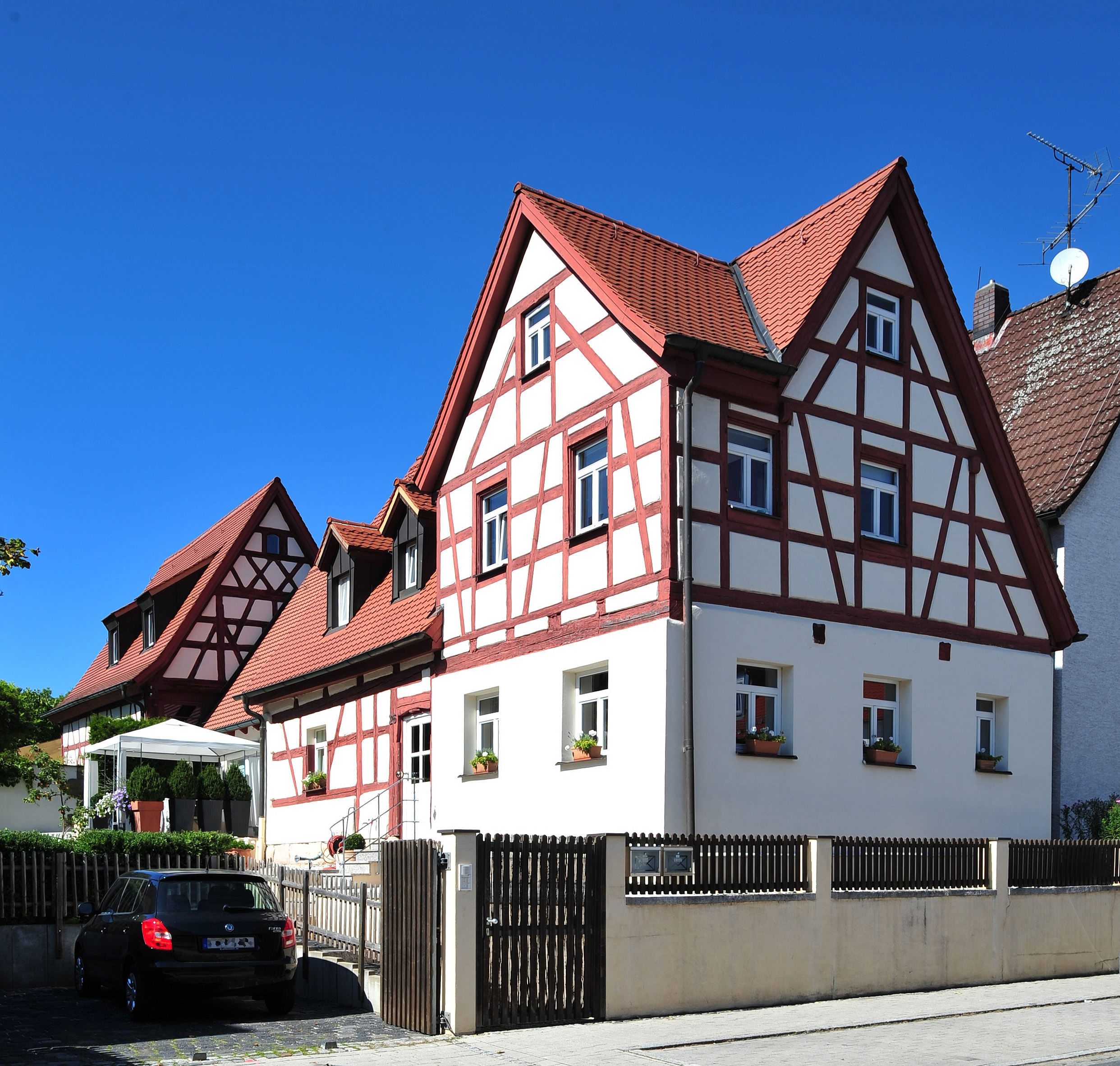 Heroldsberg Hauptstr. 26 This is a photograph of an architectural monument.